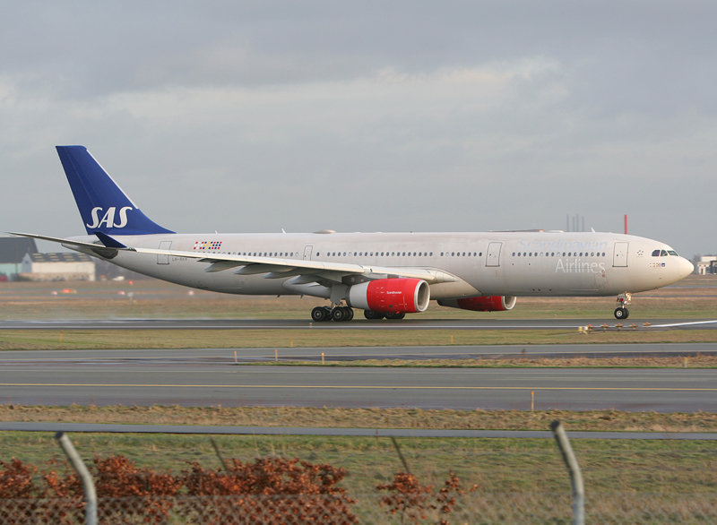 The Scandinavian airlines Airbus A330 was taken during rolling-takeoff down runway 22R from the official viewing hill called Flyvergrillen by John Paul Solis at February 5th 2007 for public domain use at